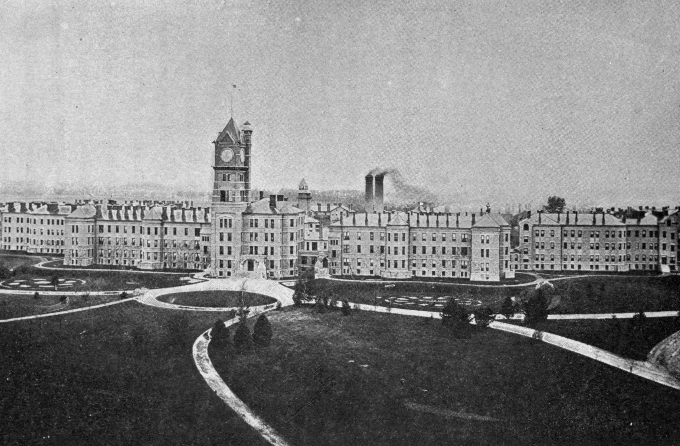 Illinois Eastern Hospital for the Insane in Kankakee, Illinois.